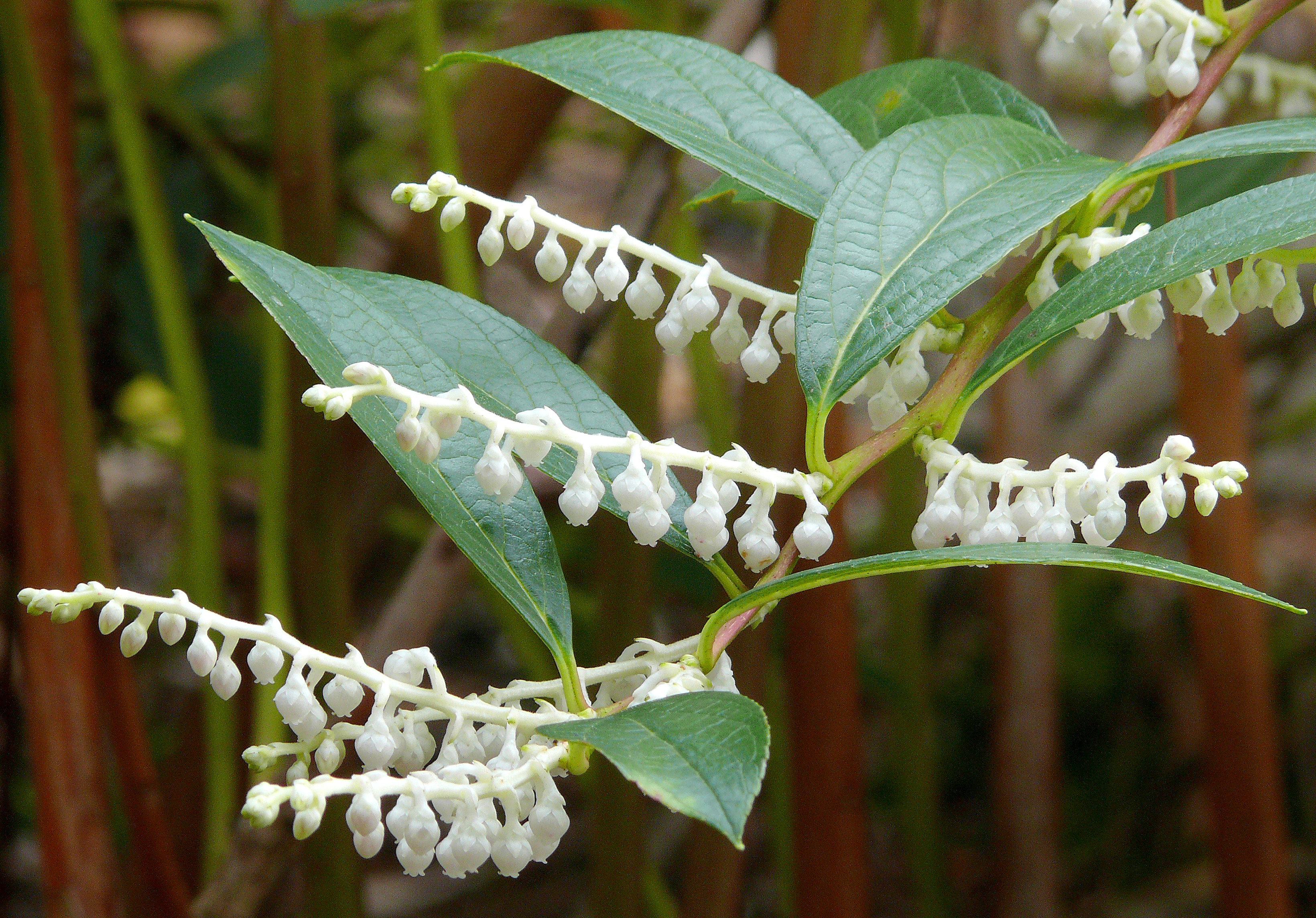 GAULTHERIA fragrantissama